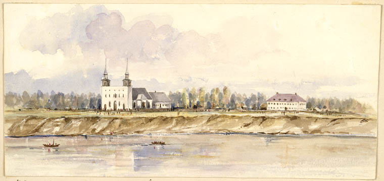 Sketch of Saint Boniface, Red River Settlement (now Winnipeg, Manitoba, Canada). Original caption: "(Inscription: in pen and brown ink, recto, under the image, on the album page, b.) St. Boniface. R.C. cathedral - Red River Settlement. / Drawn by W. Napier - 1858. [since burnt down in 1860- / It was built by the Right Revd Joseph Norbert Provencher, 1st R.C. Bishop of Red River - He first / came to the settlement in 1818; u.l.: 20."